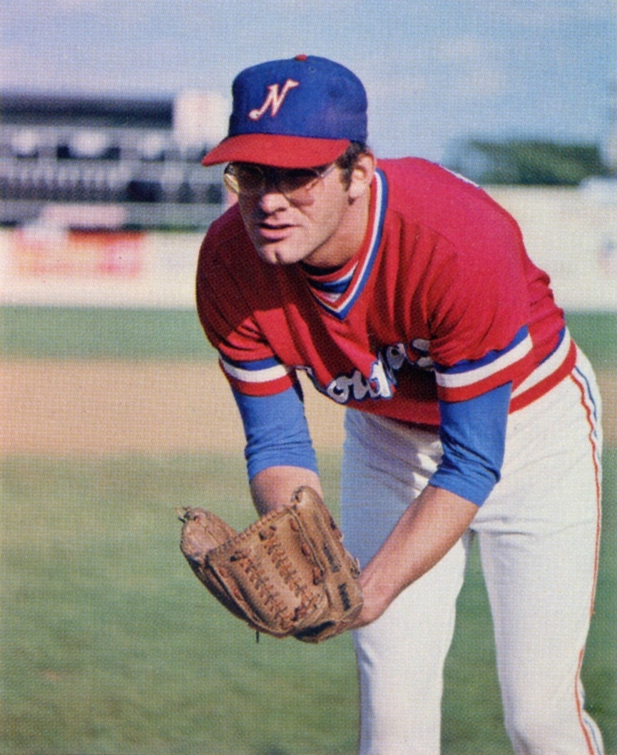 Pitcher Mike Armstrong of the 1979 Nashville Sounds Minor League Baseball team of the Southern League